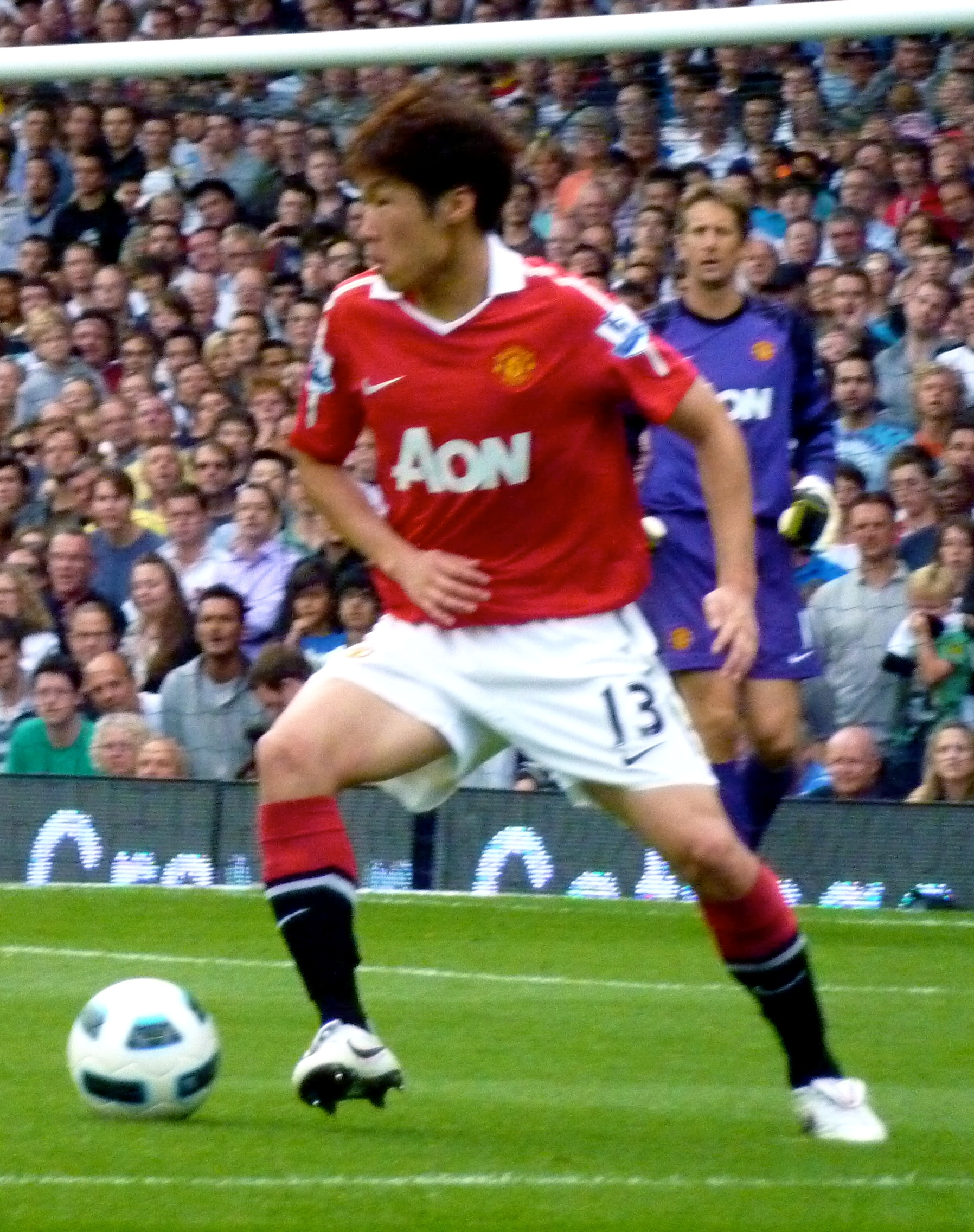 Ji-Sung Park of Manchester United during the Barclays Premier League match between Fulham and Manchester United at Craven Cottage on August 22, 2010 in London, England.